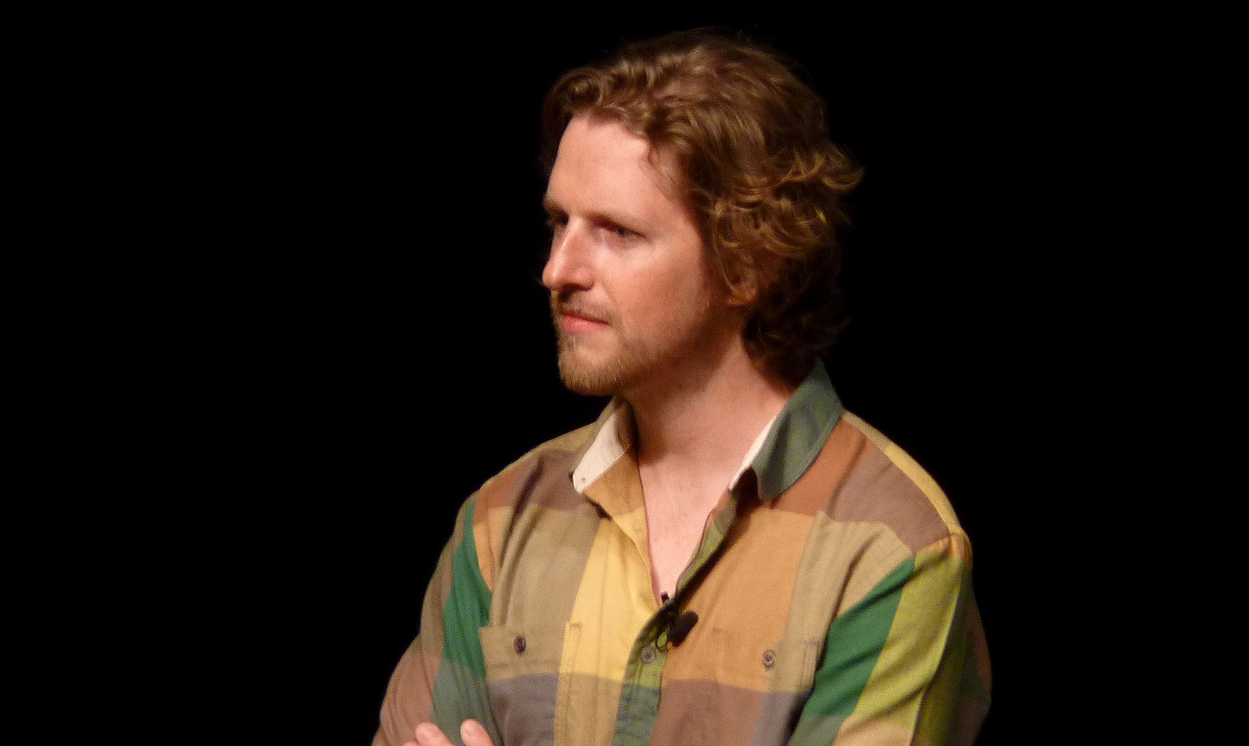 Matt Mullenweg at WordCamp Europe 2013 in Leiden, The Netherlands You can use this images for free. But a link to the - I would be happy :)